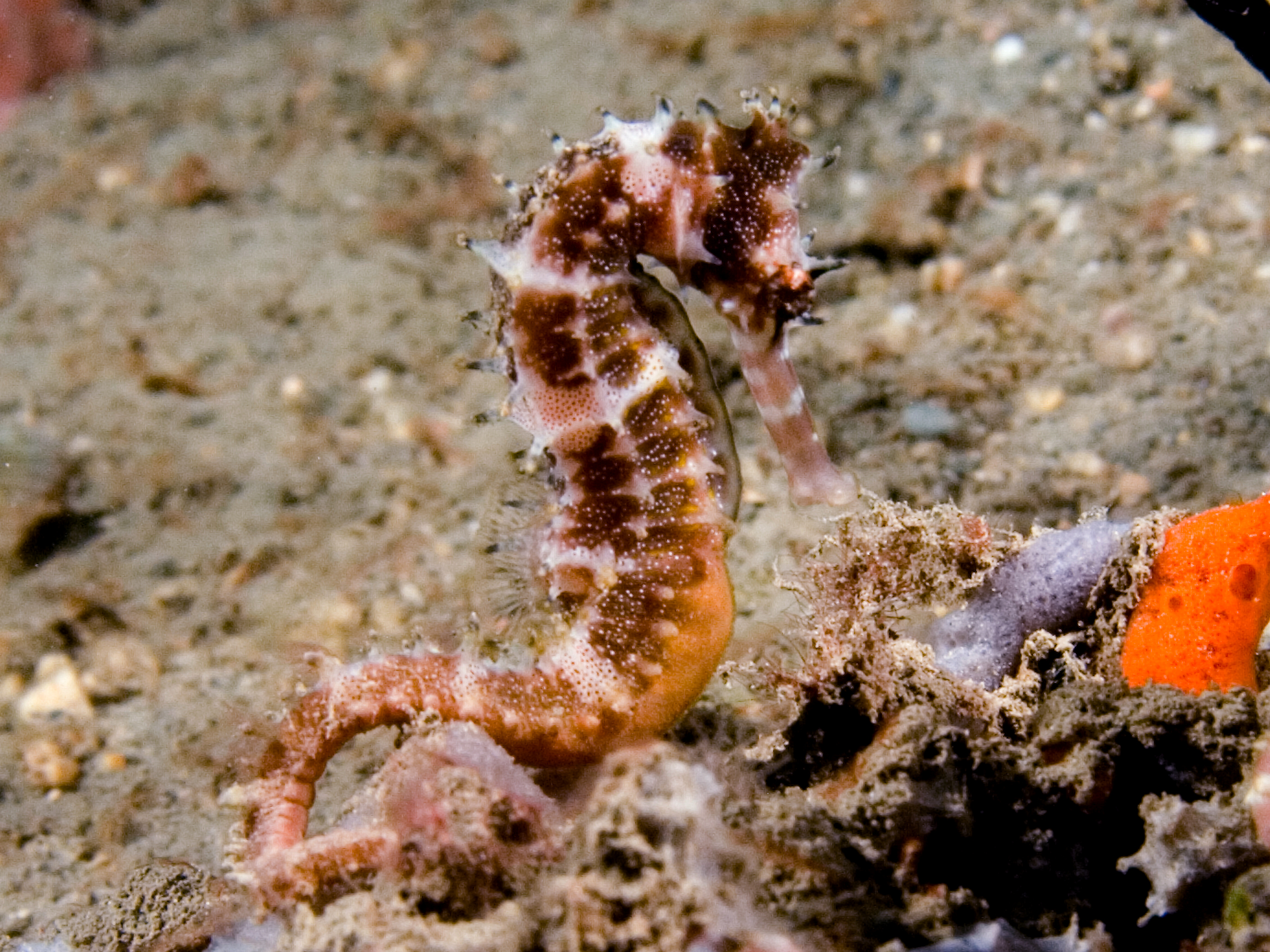 Hippocampus histrix (Thorny seahorse)